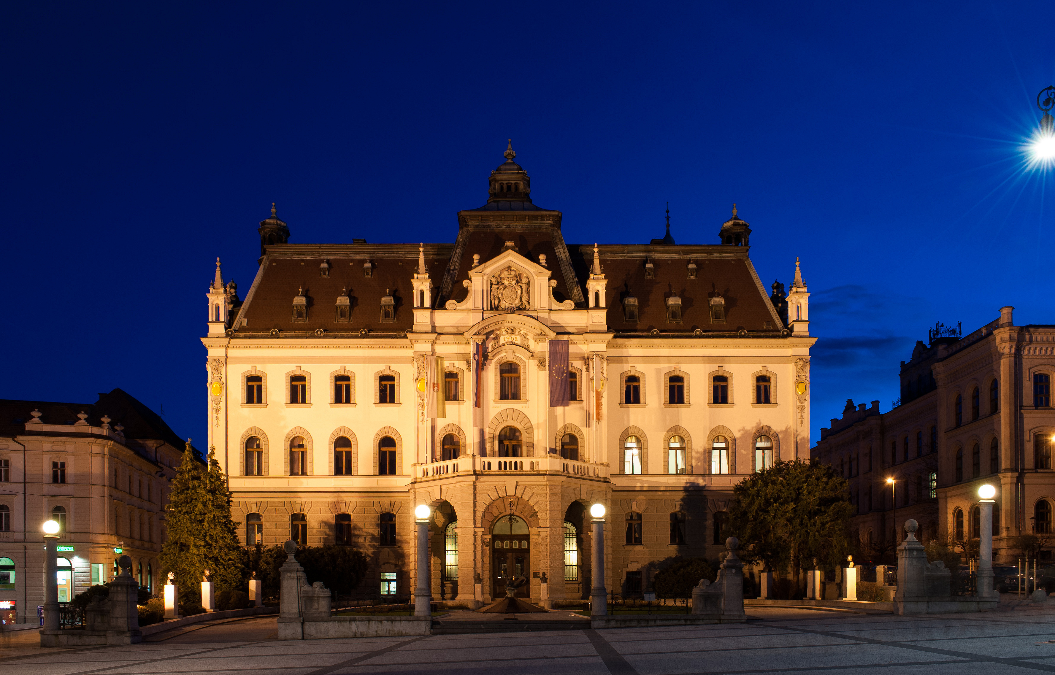 University of Ljubljana headquarters on Congress Square, Ljubljana, Slovenia.